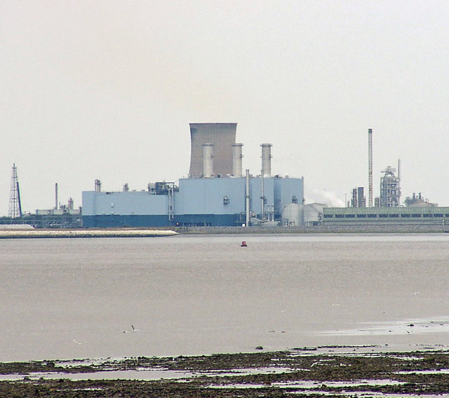 Saltend Power Station , East Riding of Yorkshire, England, seen from Goxhill Haven, Lincolnshire.This plant was purchased in 2005 by International Power plc for £500million. IPPLC says "Saltend is a modern 1,200 MW combined cycle cogeneration plant located adjacent to BP Chemicals Limited's petrochemical plant near Hull, England. Approximately 7% of the plant's generating capacity and all of the plant's steam output is contracted to BP Chemicals Limited under separate sales agreements which expire in 2015. The balance of the plant's electricity generation is sold into the UK power market. Natural gas for the plant is supplied by BP Gas Marketing Limited under a supply contract